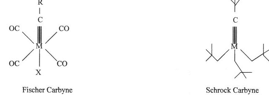 Fischer and Schrock Carbynes